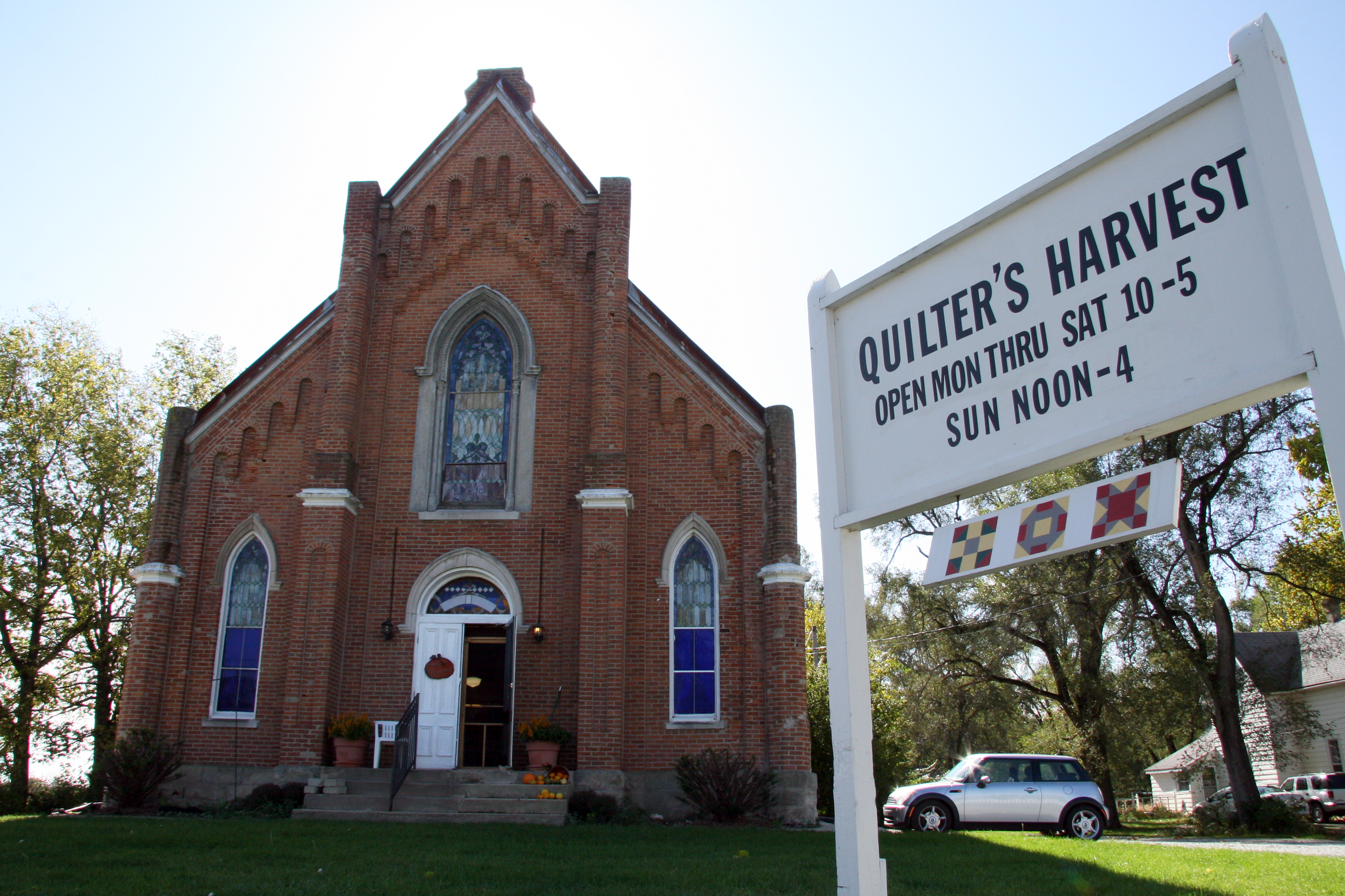 A former church building in the town of Shadeland, Indiana. Originally a Methodist church, the building was later home to other congregations and a local grange, and is now occupied by Quilter's Harvest, a quilting supply store. Photo looks south from near the intersection of State Road 25 and Tippecanoe County Road 300 South.